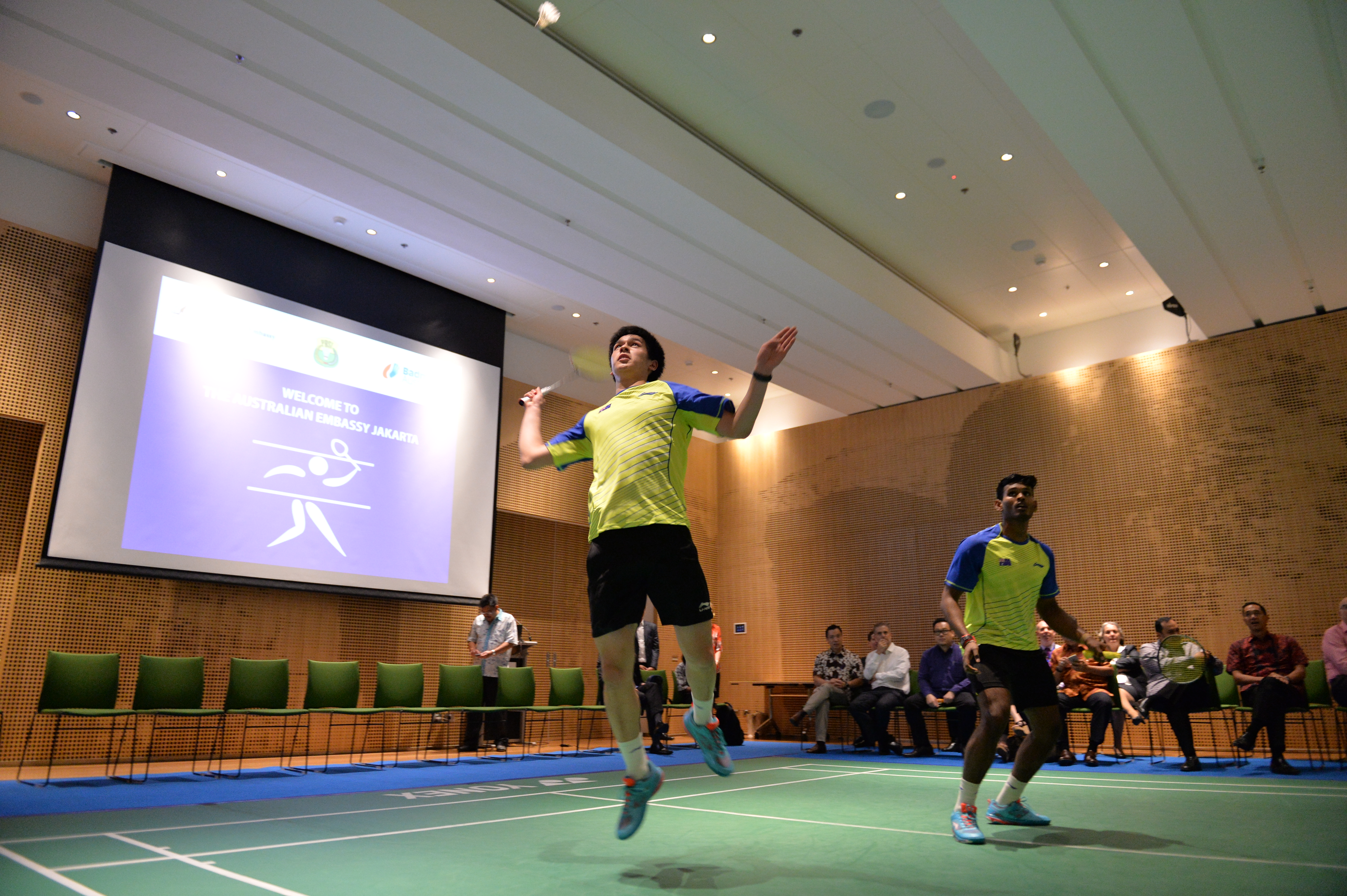 Matthew Chau and Sawan Serasinghe at the friendly match badminton Australia and Indonesia 2016 in Australian Embassy Jakarta